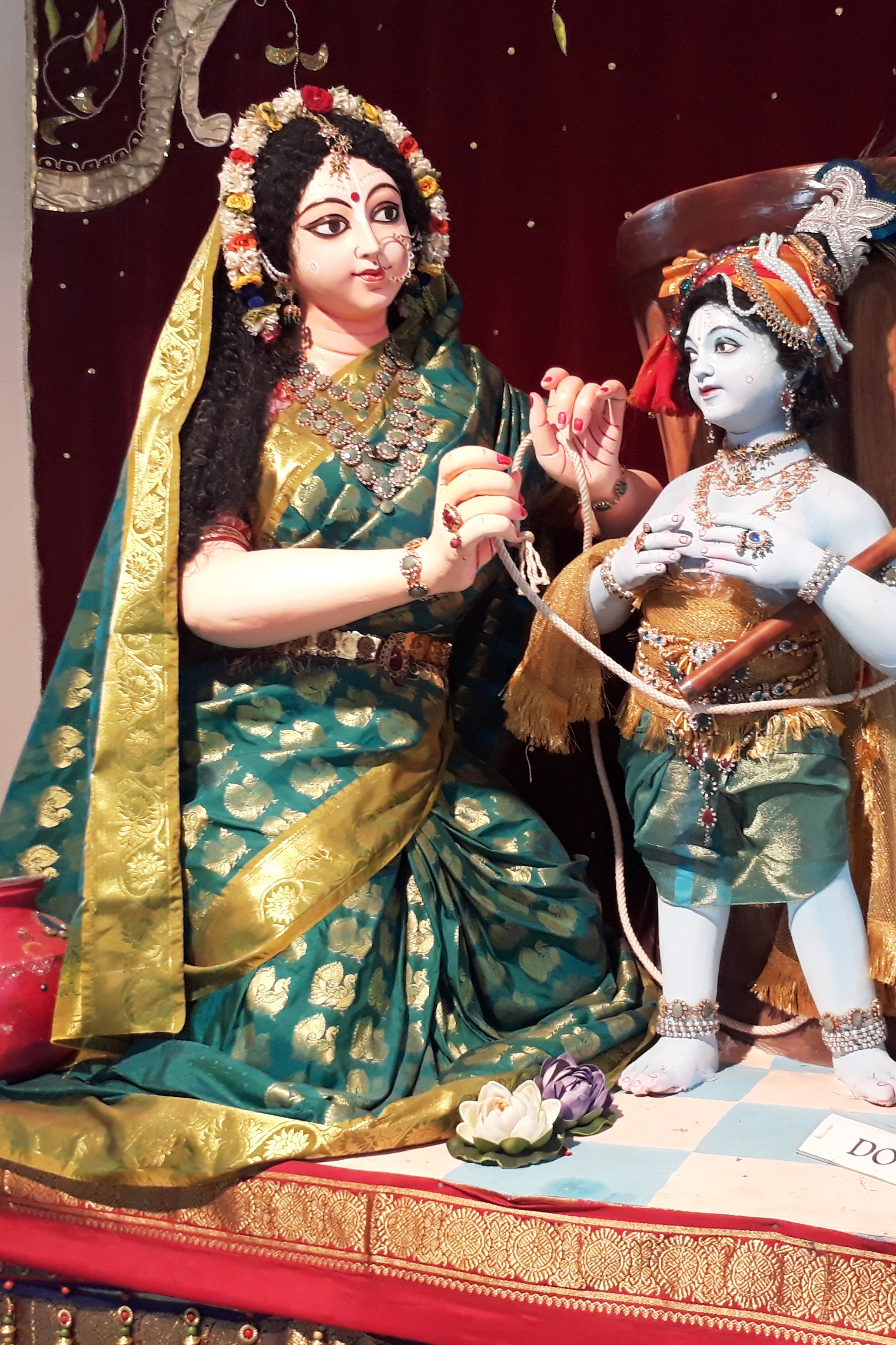 International Soceity for Krishna Consciousness or ISKCON, Mysore, Karnataka state, India.